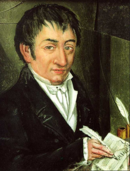 Ferdinando Provesi, composer, musician and Verdi's teacher